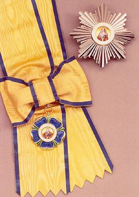 Order of Beneficence (Greek order)